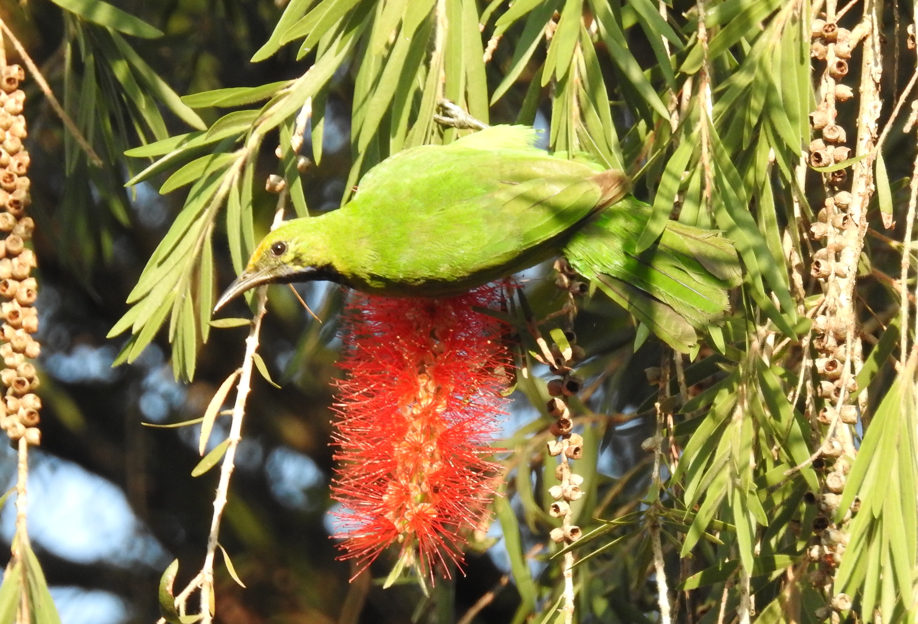 Gold-fronted Leafbird Chloropsis aurifrons. Photographed near Kaiga in Karnataka, India.